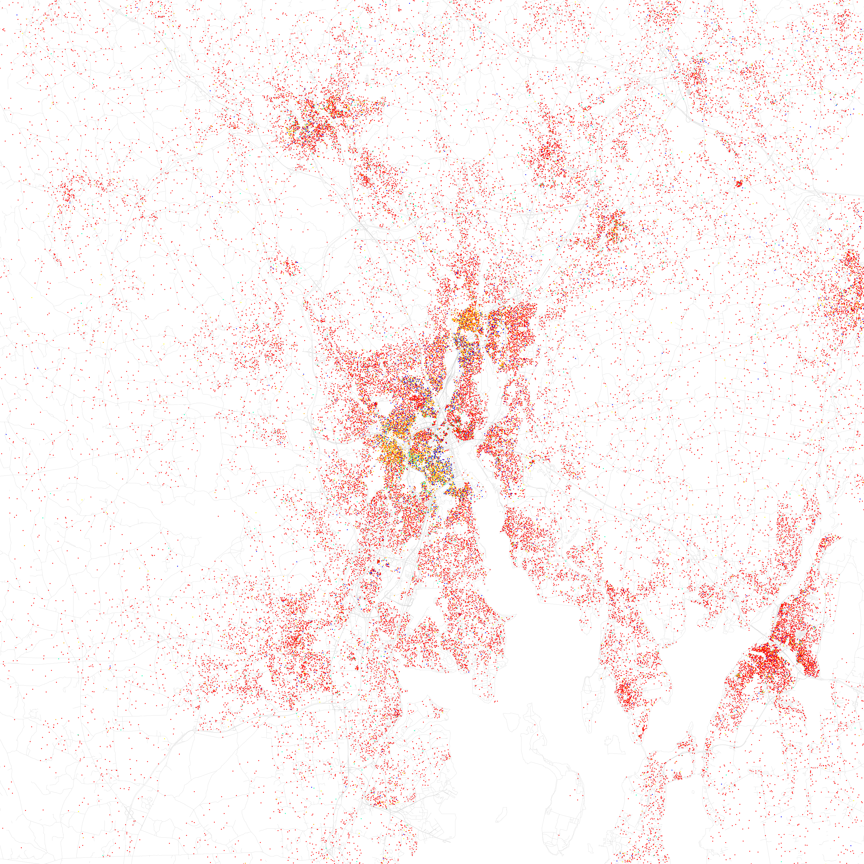 Maps of racial and ethnic divisions in US cities, inspired by Bill Rankin's map of Chicago, updated for Census 2010. Red is White, Blue is Black, Green is Asian, Orange is Hispanic, Yellow is Other, and each dot is 25 residents. Data from Census 2010. Base map © OpenStreetMap, CC-BY-SA